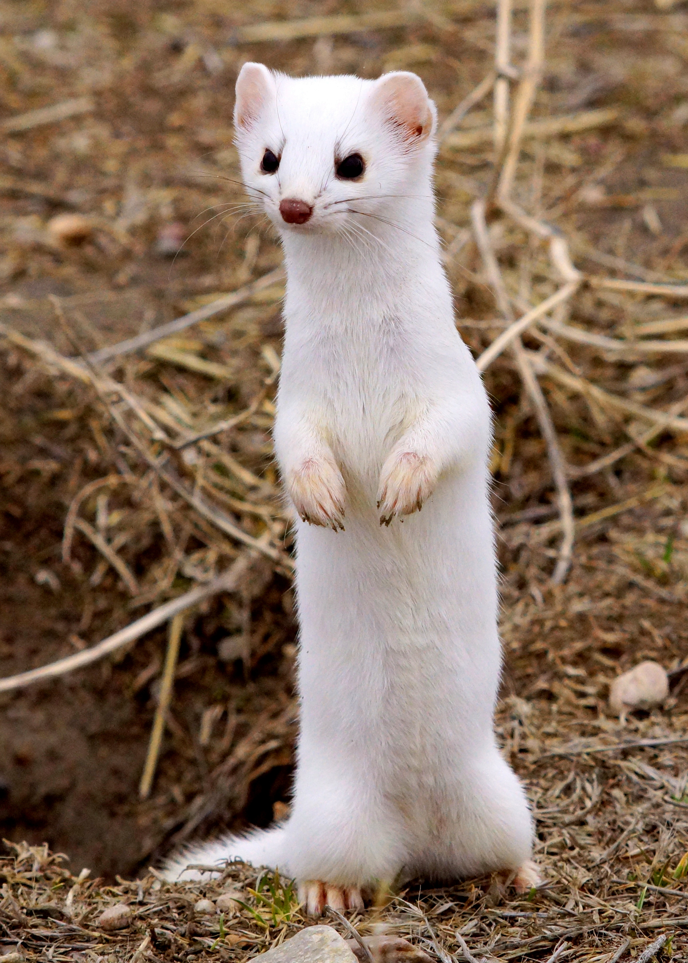 Fan Favorite 2014 - Bear River Refuge photo contest. A Long-tailed weasel in winter coat standing up near a hole in the brown, winter grass. Second place winner in Other Wildlife category. Photo credit: Jana M. Cisar / USFWS